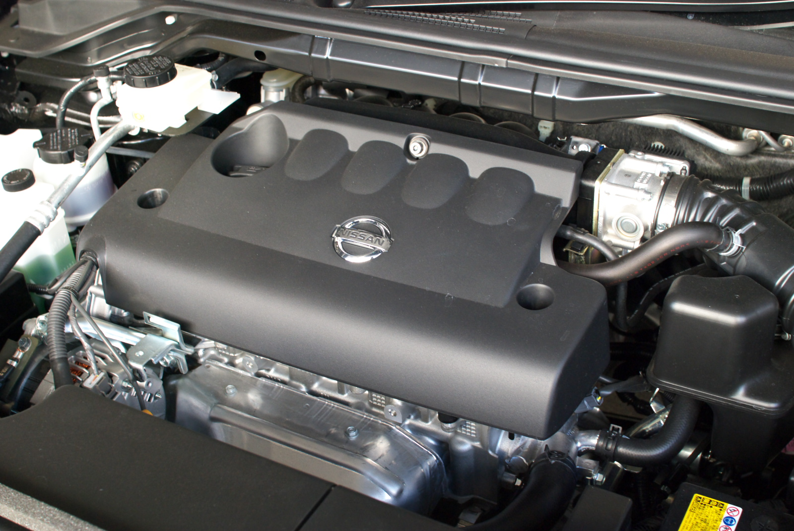 Nissan QR25DE 2.5L Straight-4 DOHC Engine on 2007 Nissan Murano